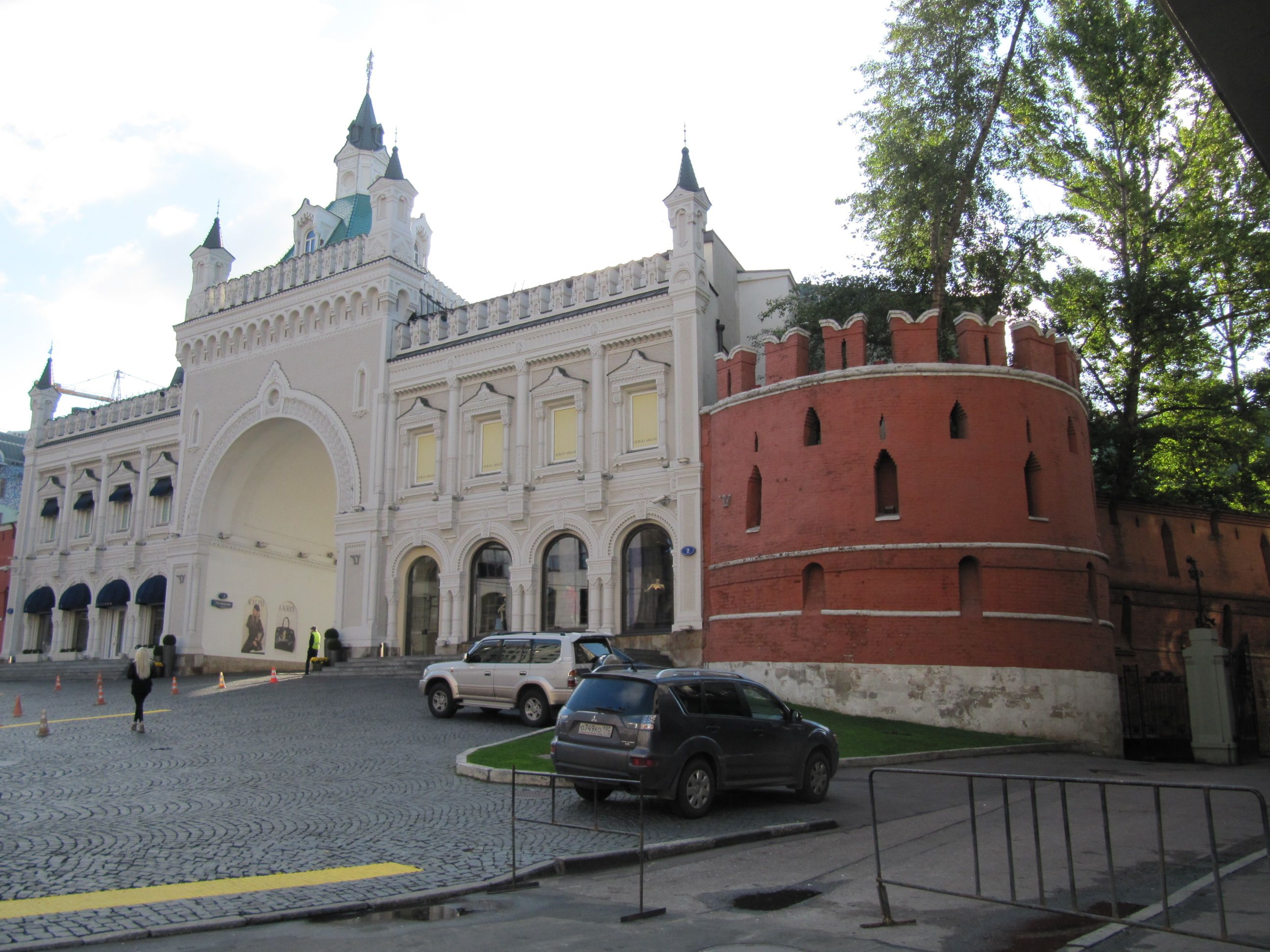 Fragment of the old city wall and the entrance of Tretyakov passage in Moscow